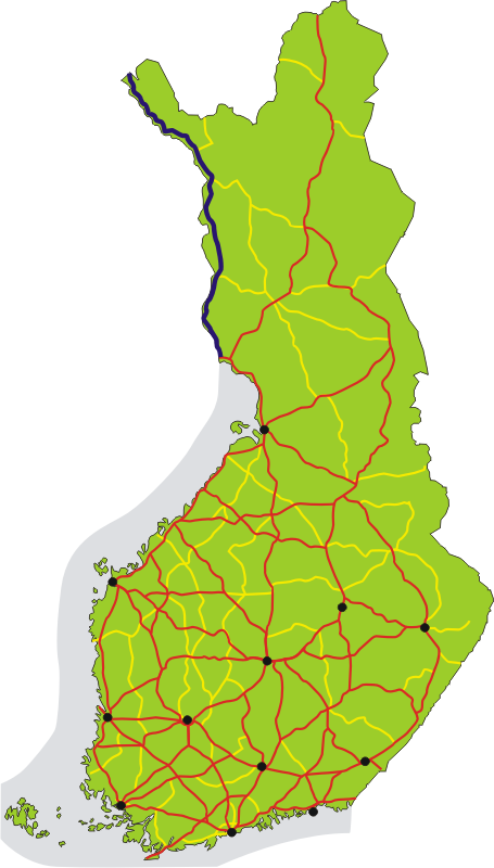 Map of the main road 21 in Finland, shown in dark blue. The other 1st class main roads (numbers 1–29) are red, 2nd class main roads (numbers 40–98) yellow. Black dots show the 12 biggest urban areas.